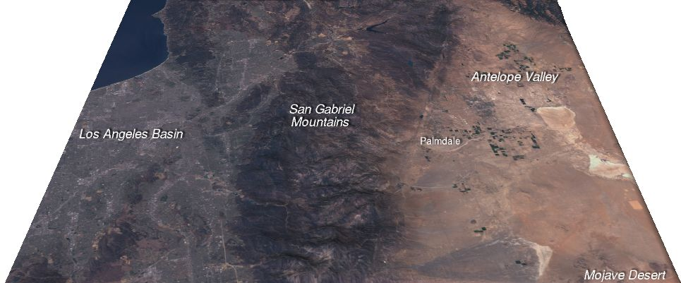 Description: Landsat-7 imagery draped over digital elevation model for Palmdale, California, and environs Caption: This view looking west shows the relationship of Palmdale, to its surrounding geography. Although in the far reaches of Los Angeles County, the community of Palmdale in Antelope Valley is separated from the sprawling Los Angeles basin by the San Gabriel Mountains. (Vertical relief is exaggerated fifty percent in this image.) Source: Created for Wikipedia by wikipedian Kbh3rd using public domain data and imagery from the USGS. The image was created with 3DEM[1] and annotated with The Gimp[2].